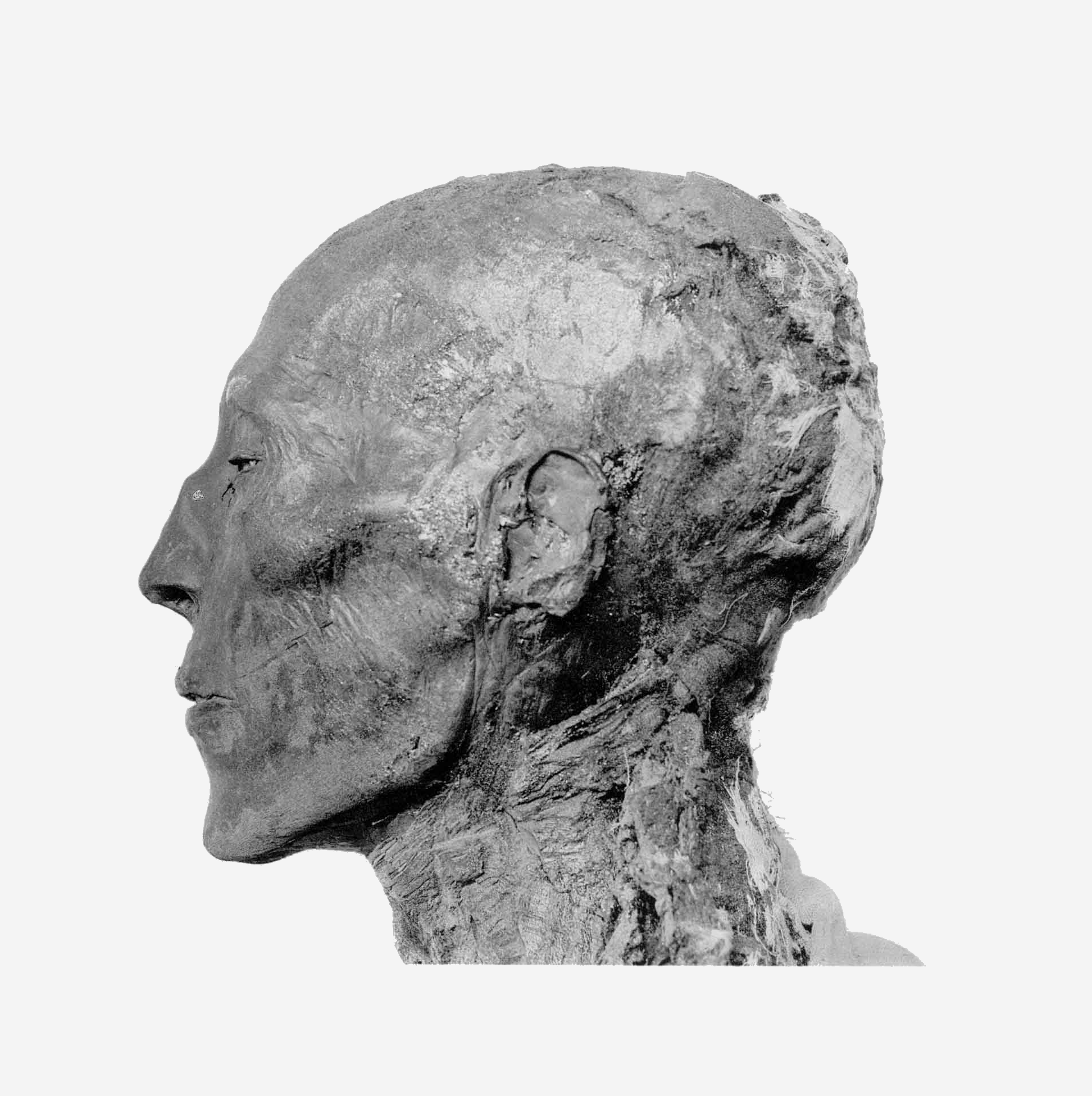 Head of mummy of pharaoh Seti I.